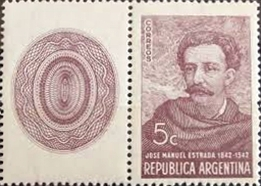 Stamp commemorating the centenary of the birth of José Manuel Estrada (1842-1942)